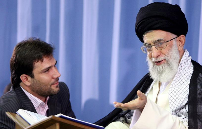 Qari Hossein Fardi and Supreme Leader Ayatollah Khamenei